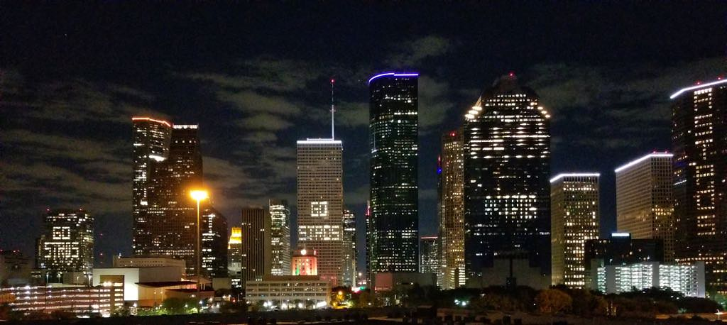 The skyline of Houston during the 2017 World Series involving the Houston Astros vs. Los Angeles Dodgers